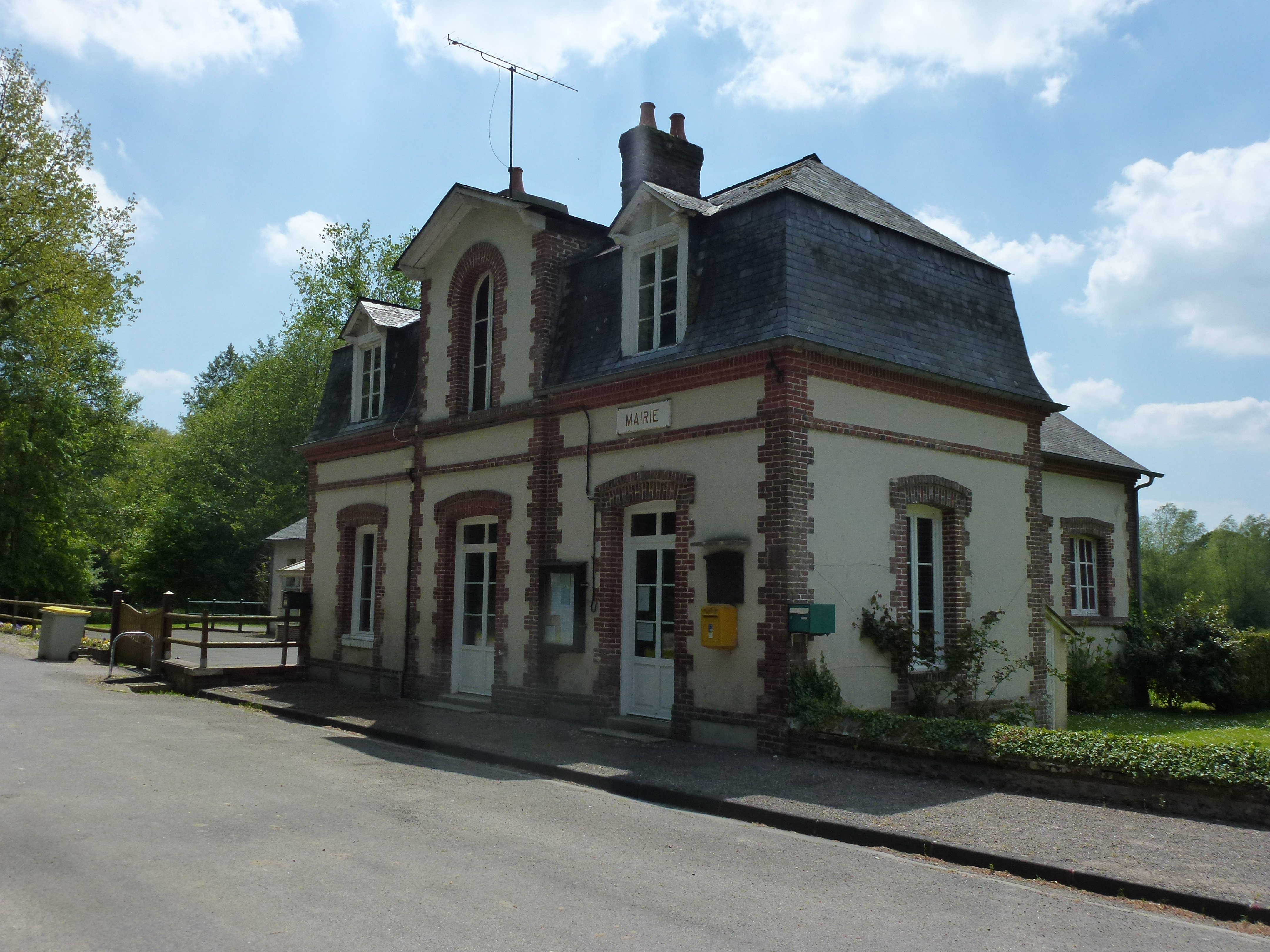 Bailleul-la-Vallée (Eure, Fr) mairie